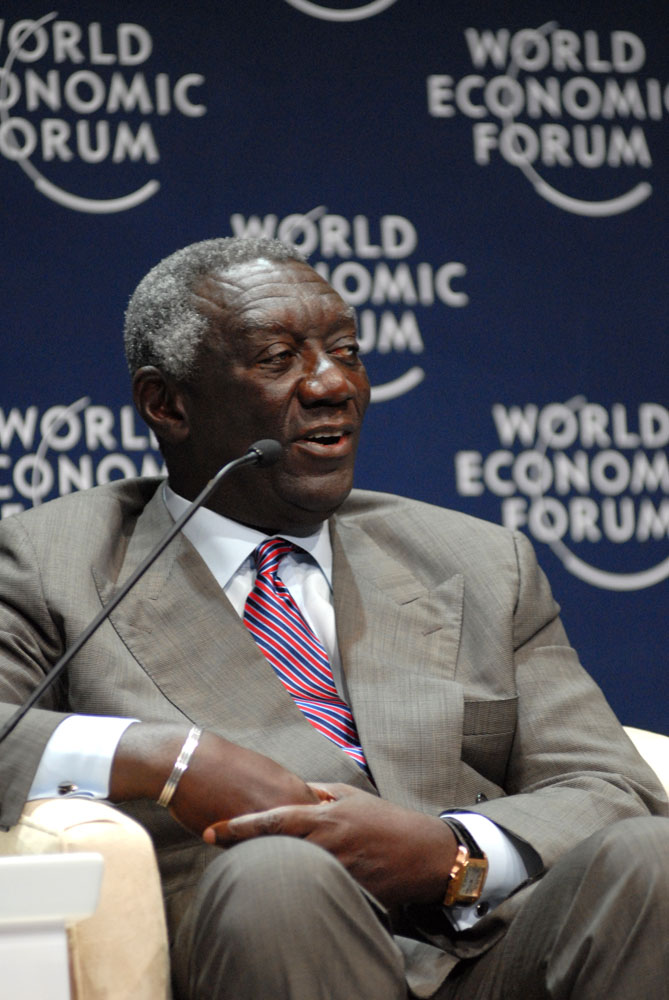 CAPE TOWN/SOUTH AFRICA, 4JUN08 - John Agyekum Kufuor, President of Ghana, captured during the Opening Plenary of the World Economic Forum on Africa 2008 in Cape Town, South Africa, June 4, 2008. Copyright World Economic Forum/Eric Miller mailto